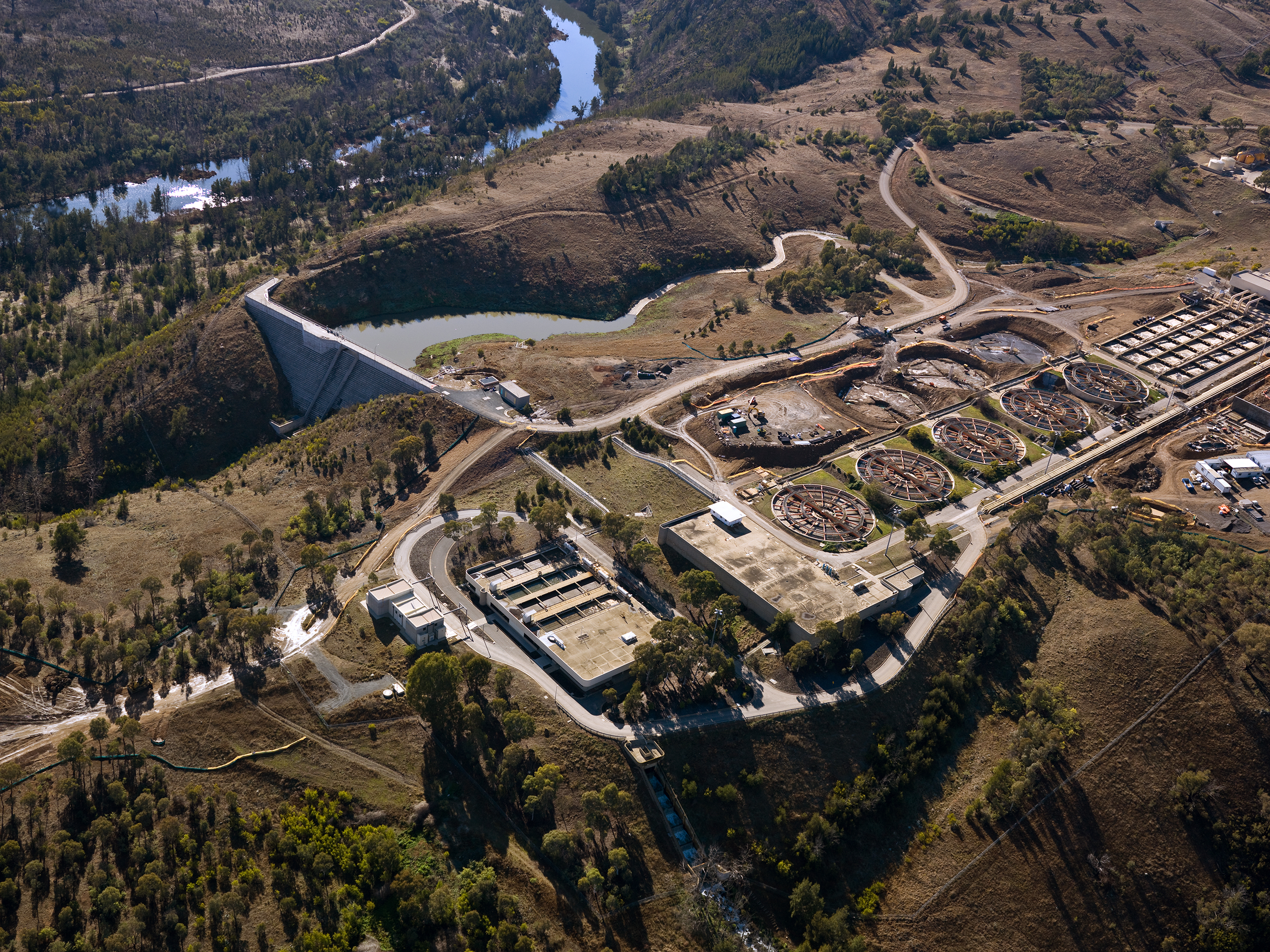 The Lower Molonglo Water Quality Control Centre is the main sewage and wastewater treatment facility for Canberra. It is located adjacent to the junction of the Murrumbidgee and Molonglo Rivers.